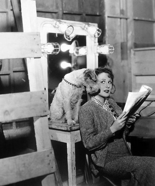 Promotional still for the 1935 film, It's a Small World, the American film debut of Wendy Barrie, shown behind the scenes with the canine actor Skippy